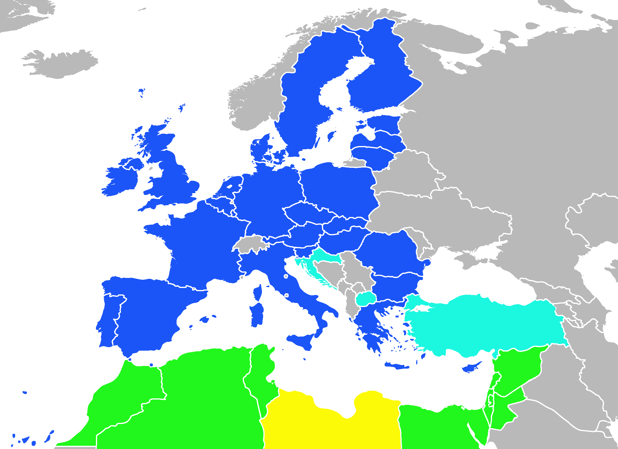 members of the wp:Euromediterranean Partnership Based on Image:BlankMap-Europe-v4.png